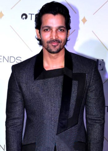 Harshvardhan Rane graces Vogue Beauty Awards 2017.